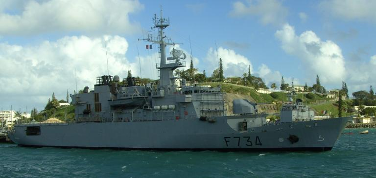 French Navy ship Vendémiaire (F734) (Floréal class frigate) undergoing maintenance at the base in Nouméa, New Caledonia. Note the scaffolding along the superstructure, and that the superstructure of the FS Jacques Cartier L9033, a nearby BATRAL landing ship, is visible over the foredeck.